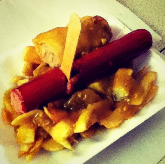 saveloy, chips and curry!